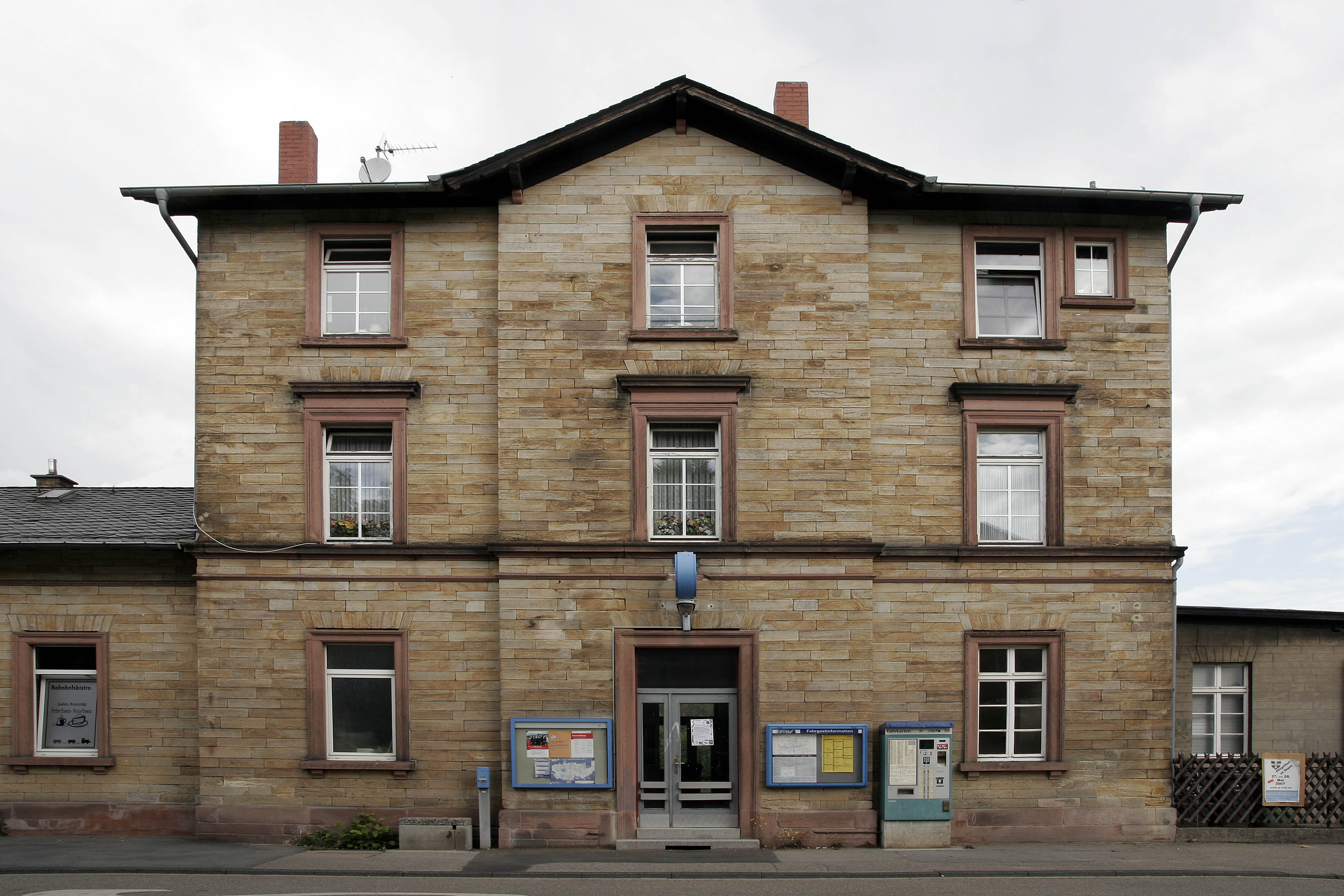 Lorsch (Germany), railway-station.